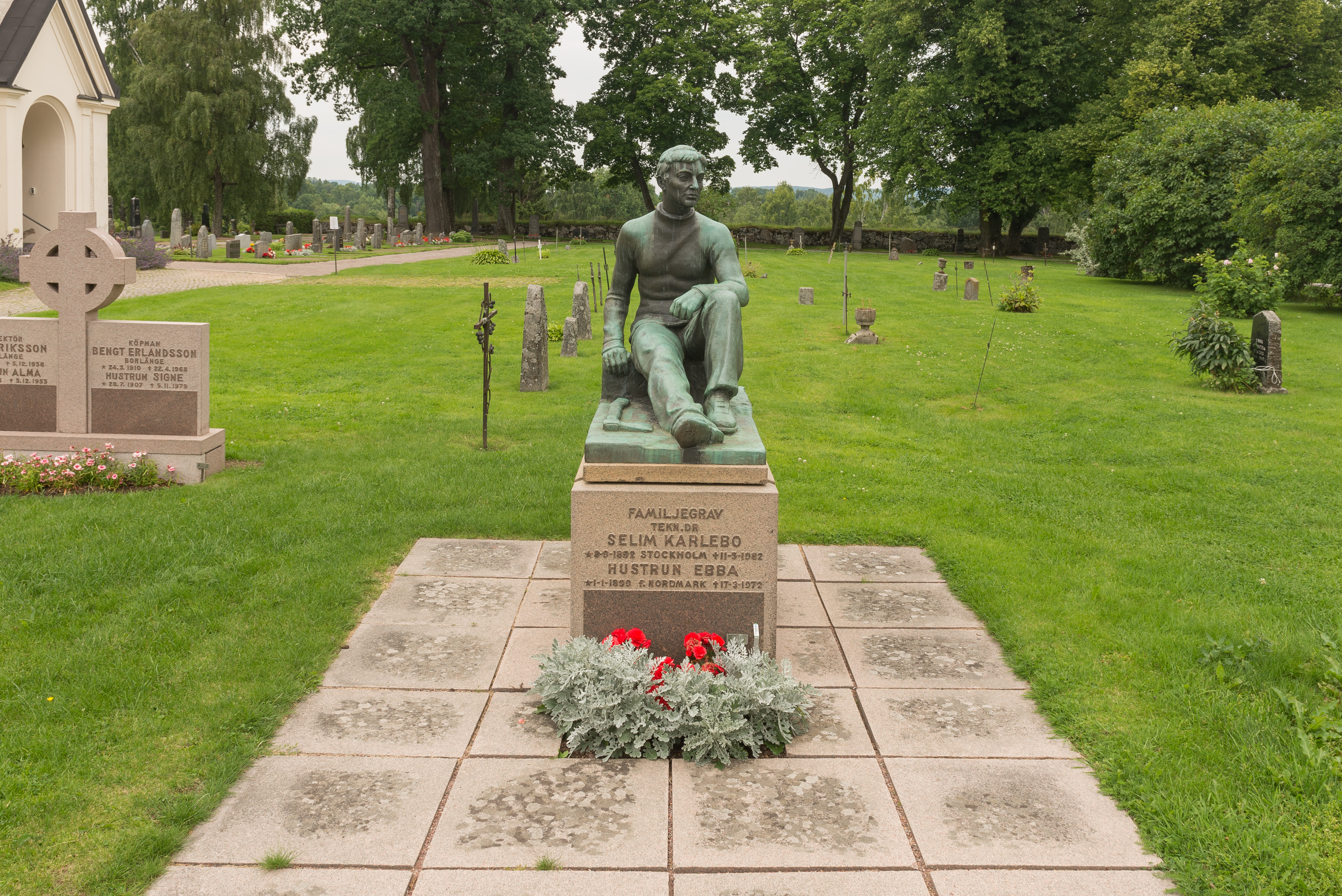 Selim Karlebo family grave. Stora Tuna cementery. Stora Tuna Parish, Diocese of Västerås, Church of Sweden.